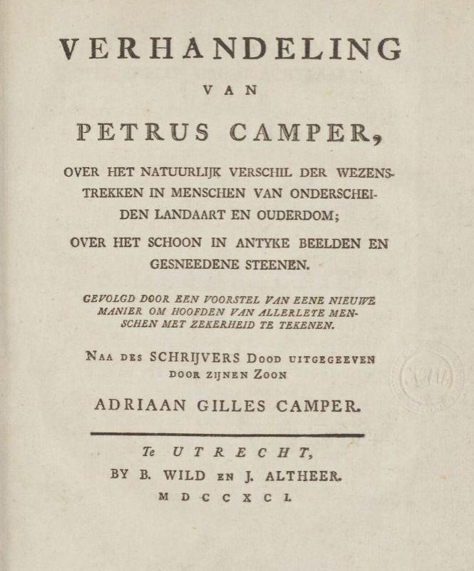 Title page of book on Facial angles; published posthumously by Adriaan Gilles Camper for his father Petrus Camper, whose 2 famous lectures for the Amsterdam drawing academy in 1770 were reported in the Dutch literature society's Verhqandelingen without his drawings, and he had always intended to make a book with engravings after the drawings. Reinier Vinkeles made the engravings in 1785, but publishing only occurred after Camper sr. died in 1789